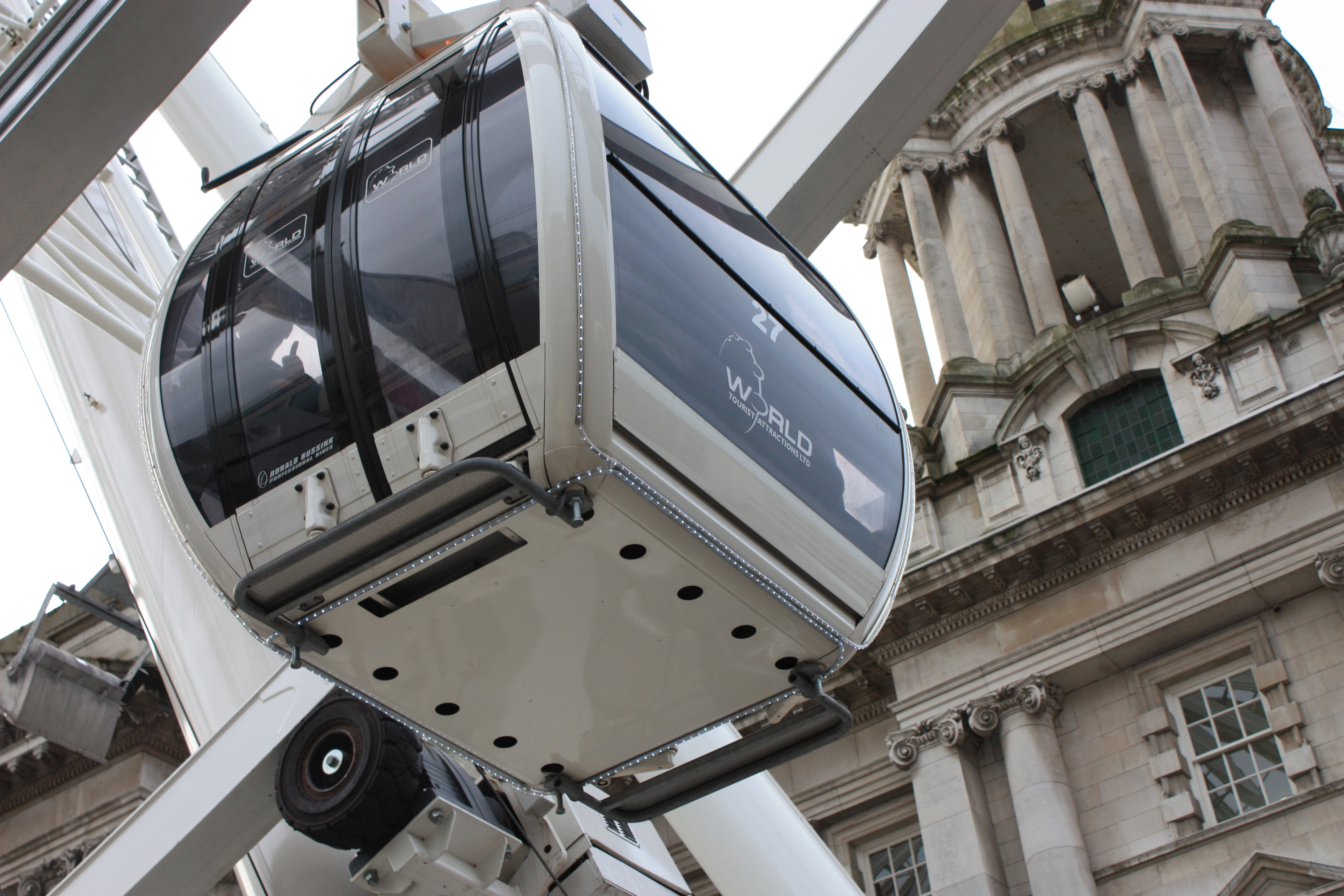 Belfast Wheel, City Hall, Belfast, Northrn Ireland, December 2009